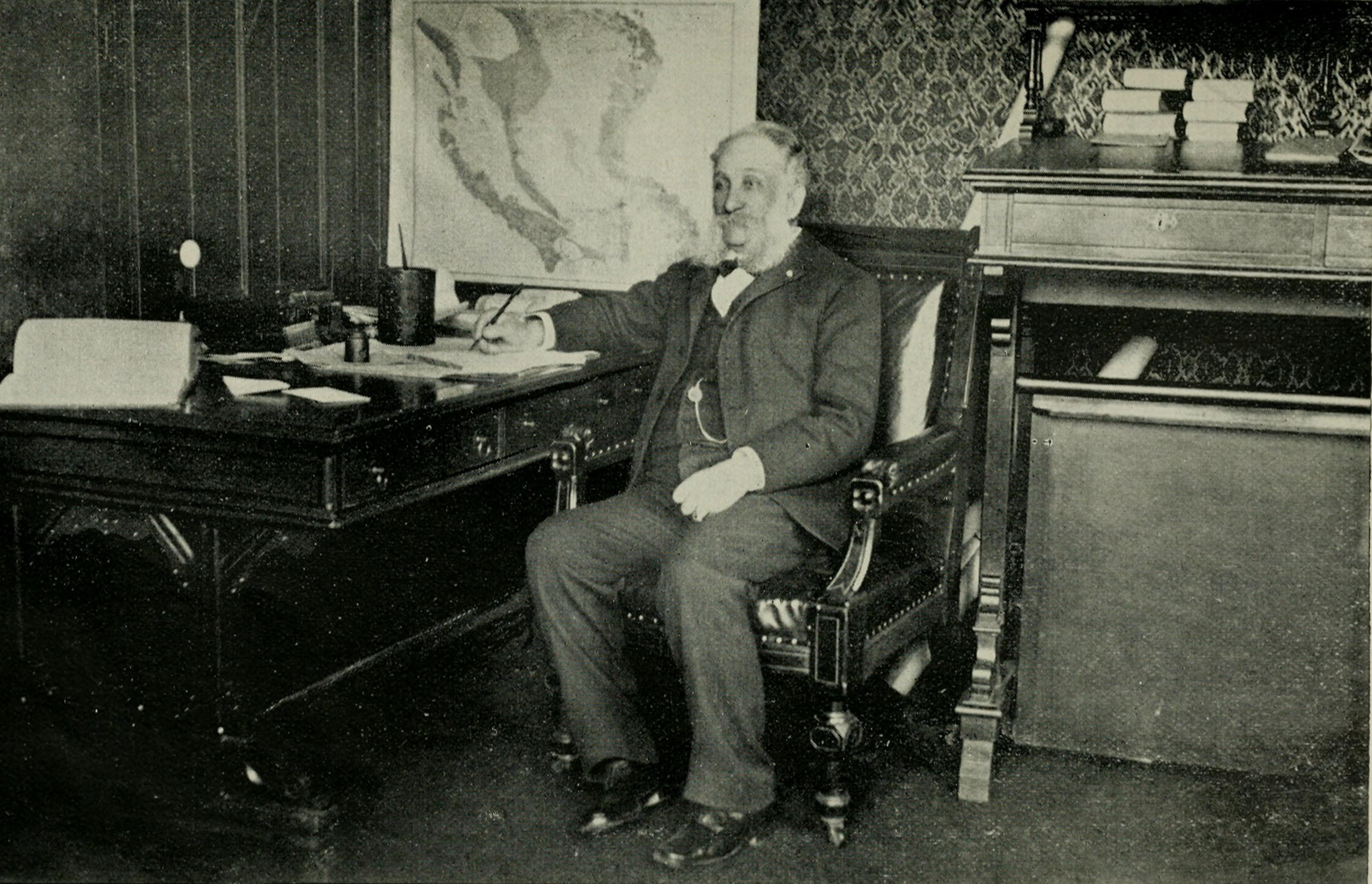 Frank M. Pixley, editor of the San Francisco Argonaut, in his editorial room.